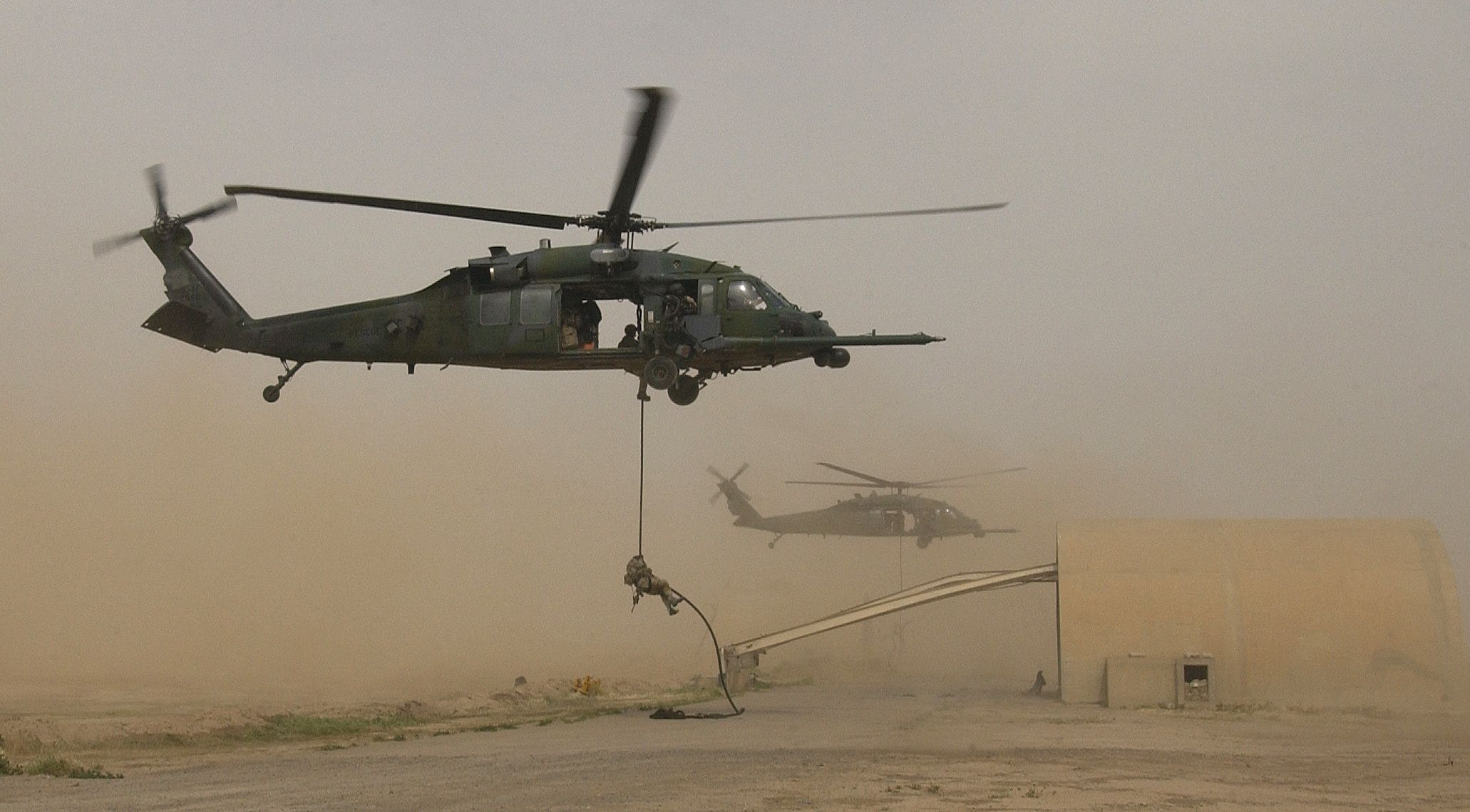 BALAD AIR BASE, Iraq -- An Air Force pararescueman drops from an HH-60G Pave Hawk helicopter assigned to the 64th Expeditionary Rescue Squadron.